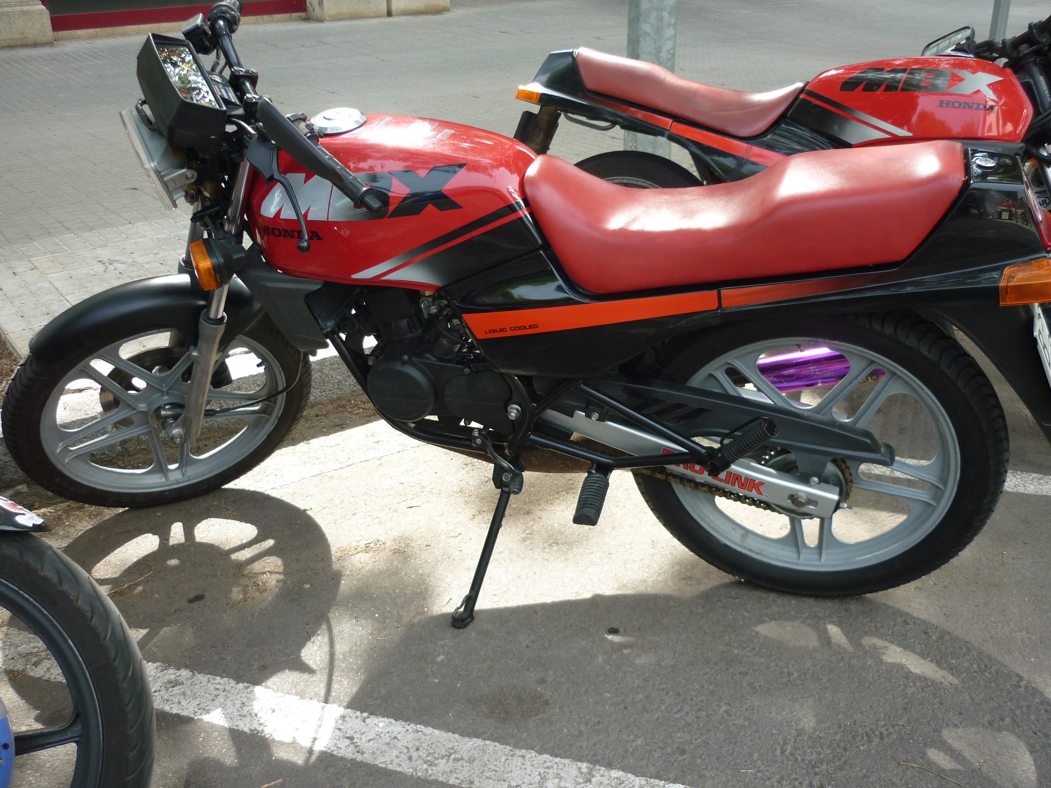 Honda MBX 75 by 1984